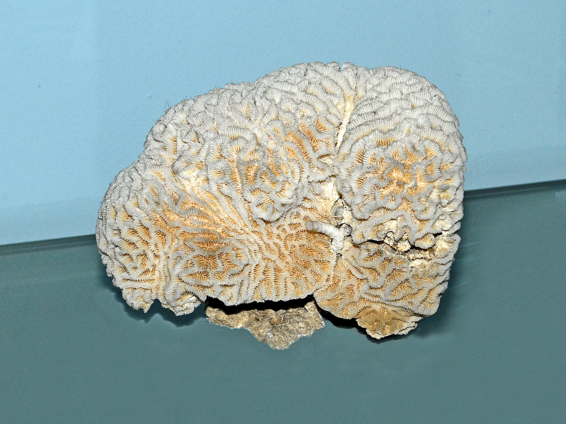 Paragoniastrea australensis (synonym: Goniastrea australensis) from the Red Sea coast of Eritrea